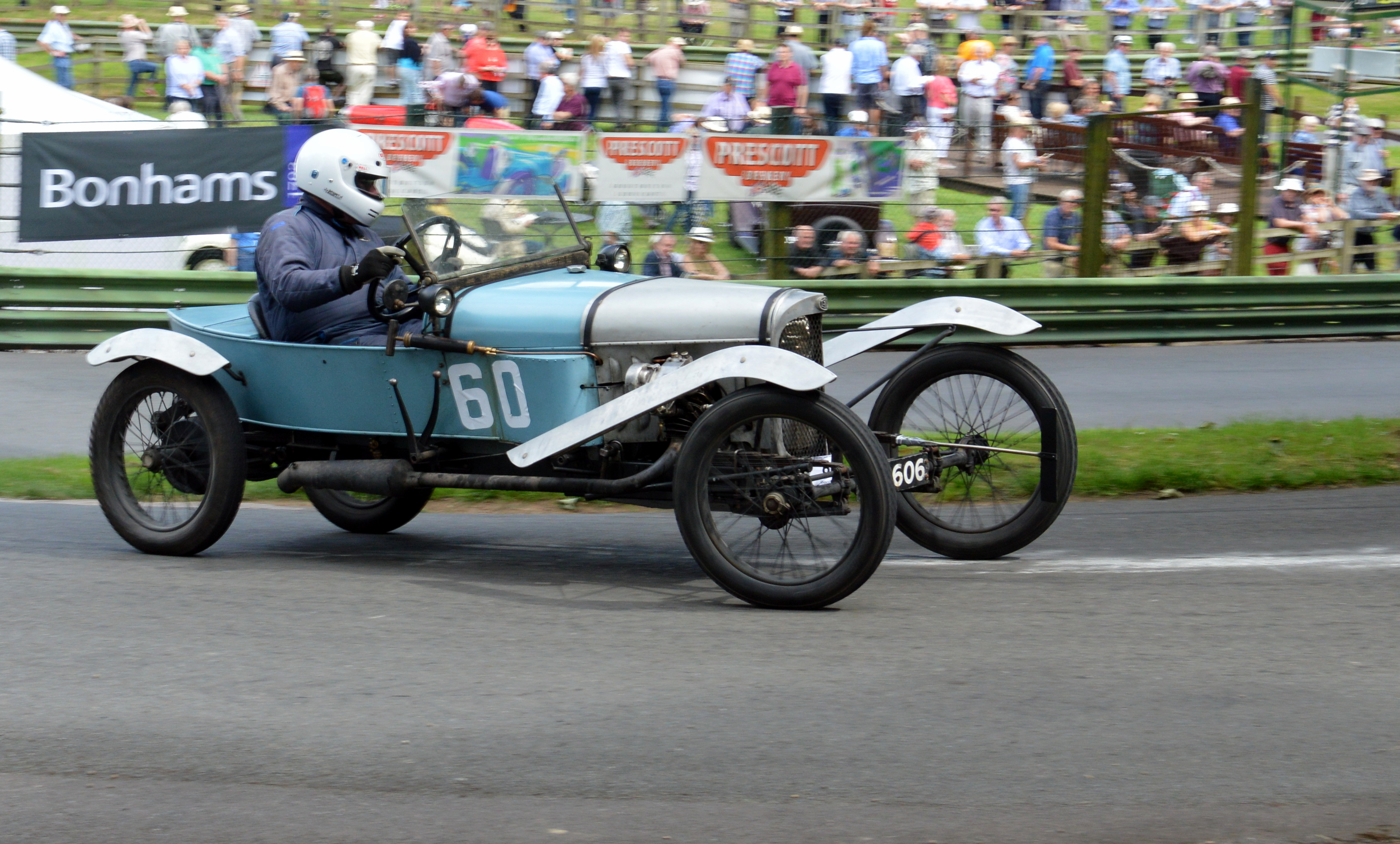 Nicholas Hildyard's 1493cc 1922 GN Vitesse making a timed run at the VSCC hill climb at Prescott.